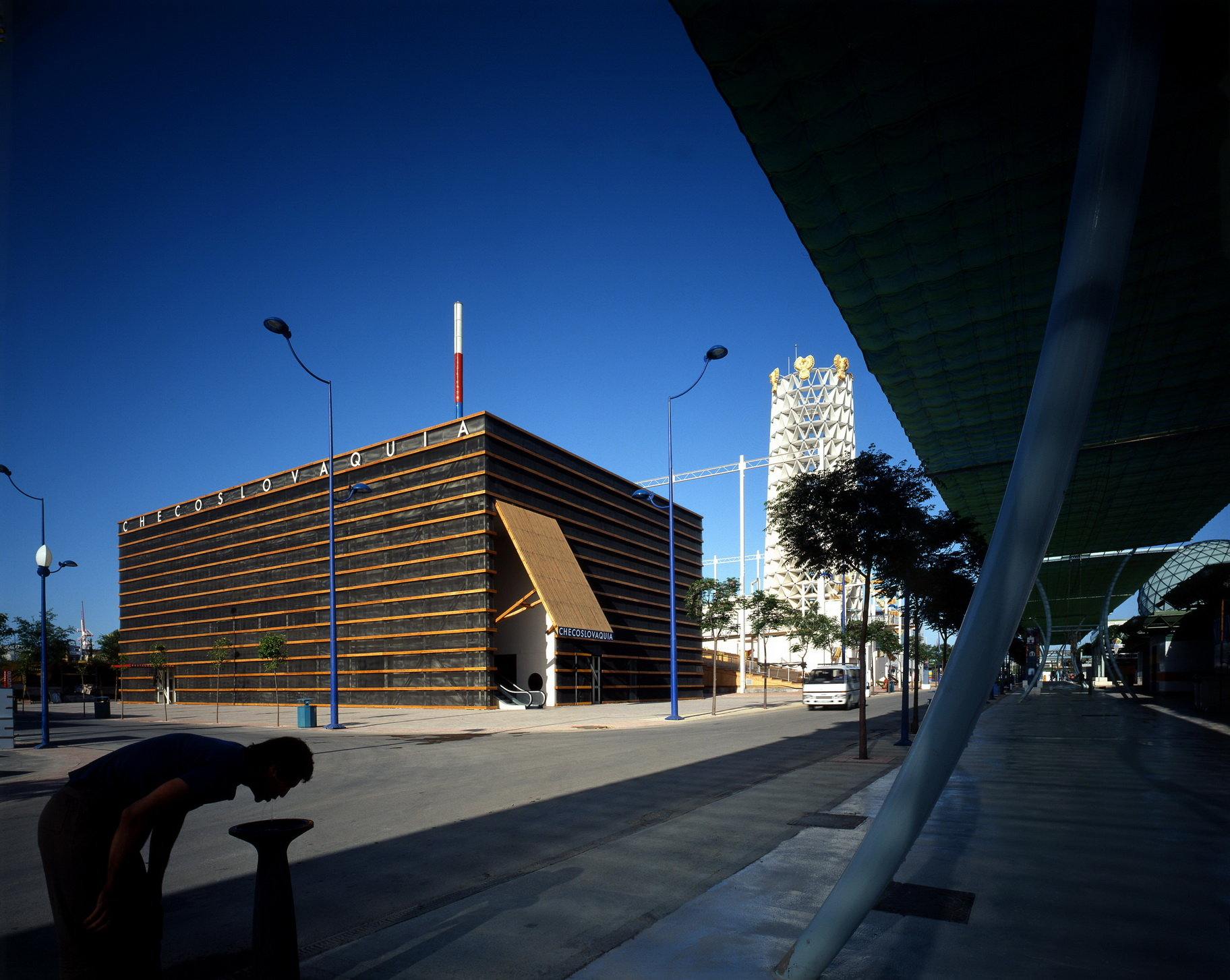 The Czechoslovak pavilion for EXPO 1992 in Seville.